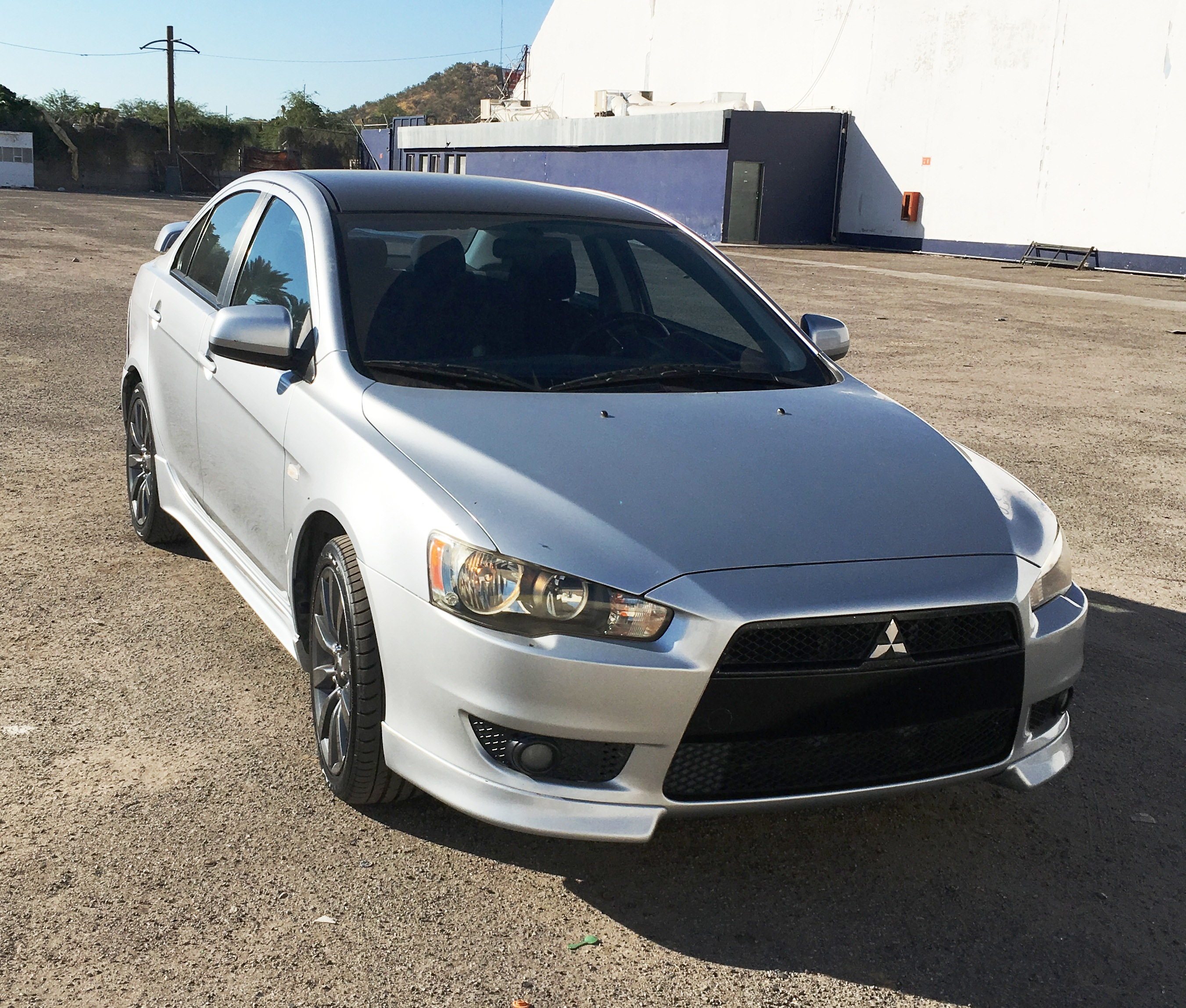 Mitsubishi Lancer GTS 2009 (Mexico)